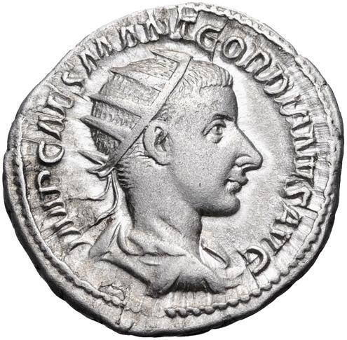 Gordian III Antoninianus